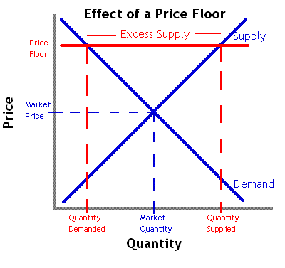 This is a very basic, freehand bitmap of the effect of a price floor.